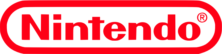 Nintendo Entertainment System logo using this simple typefaced font [1]